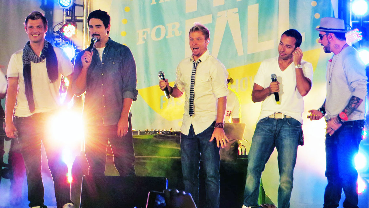 Backstreet Boys on stage during their performance at Old Navy Fit For Fall Fashion Show on September 14, 2012.